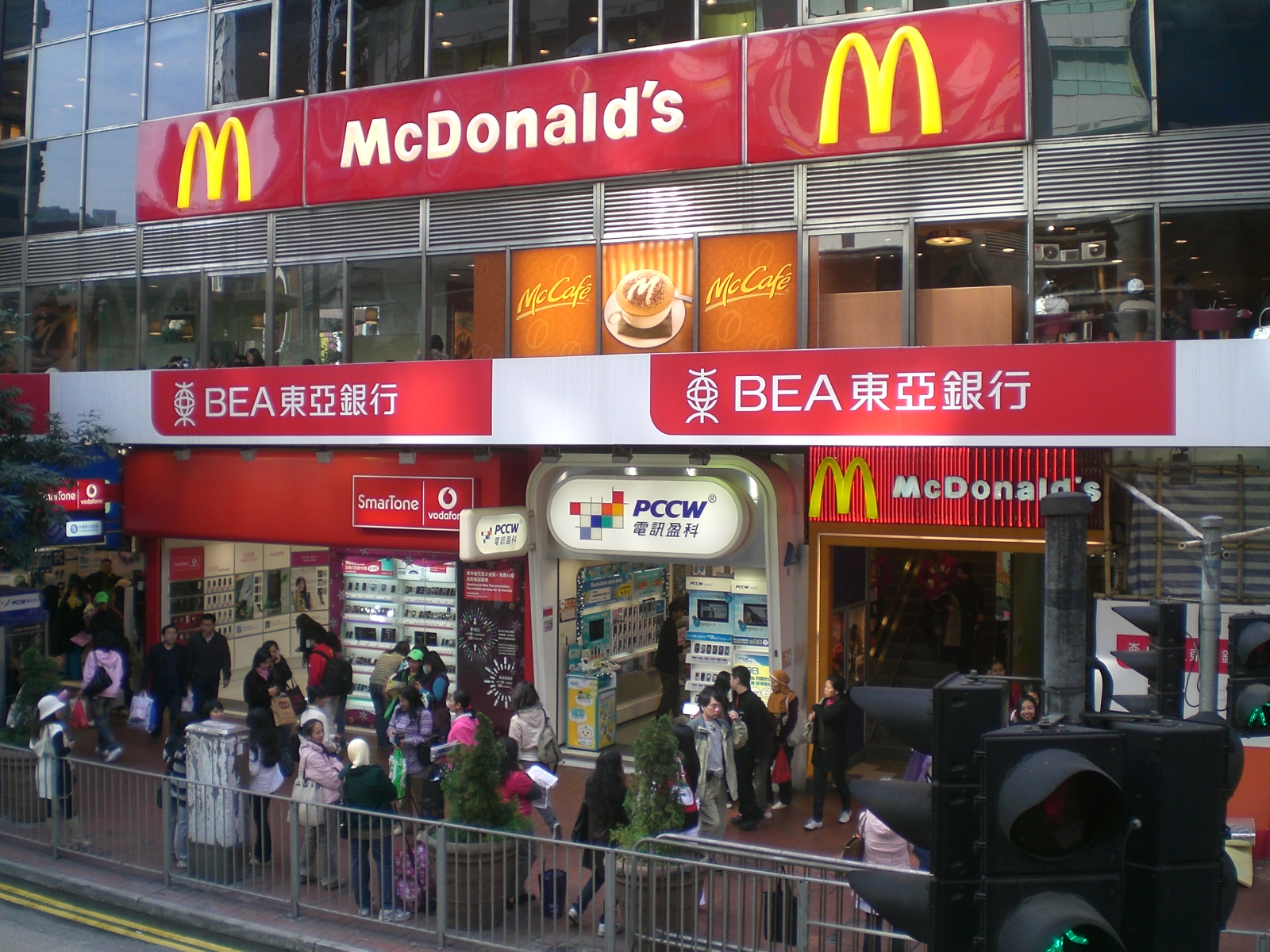 銅鑼灣 怡和街 東亞銀行 麥當勞 &